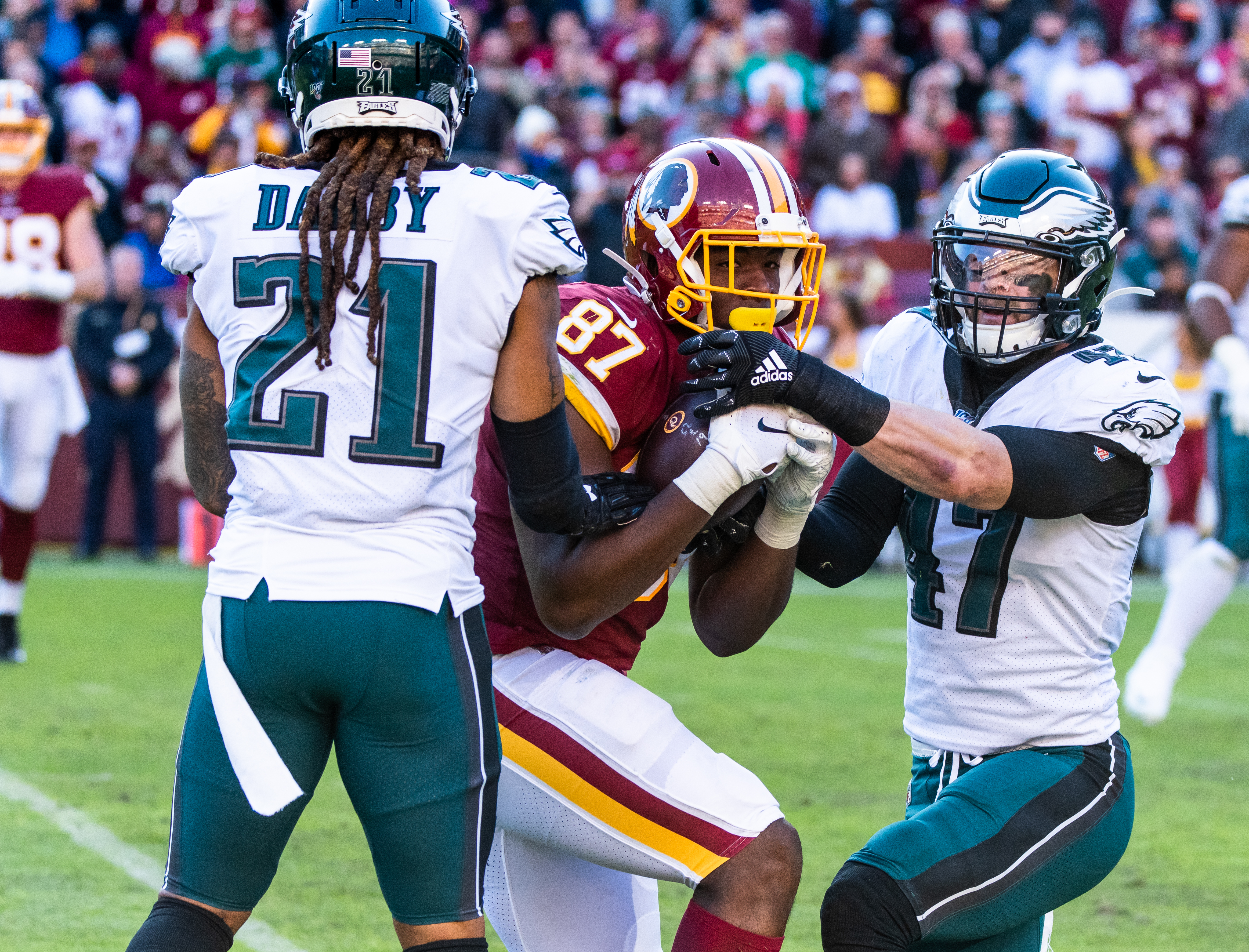 In 2019